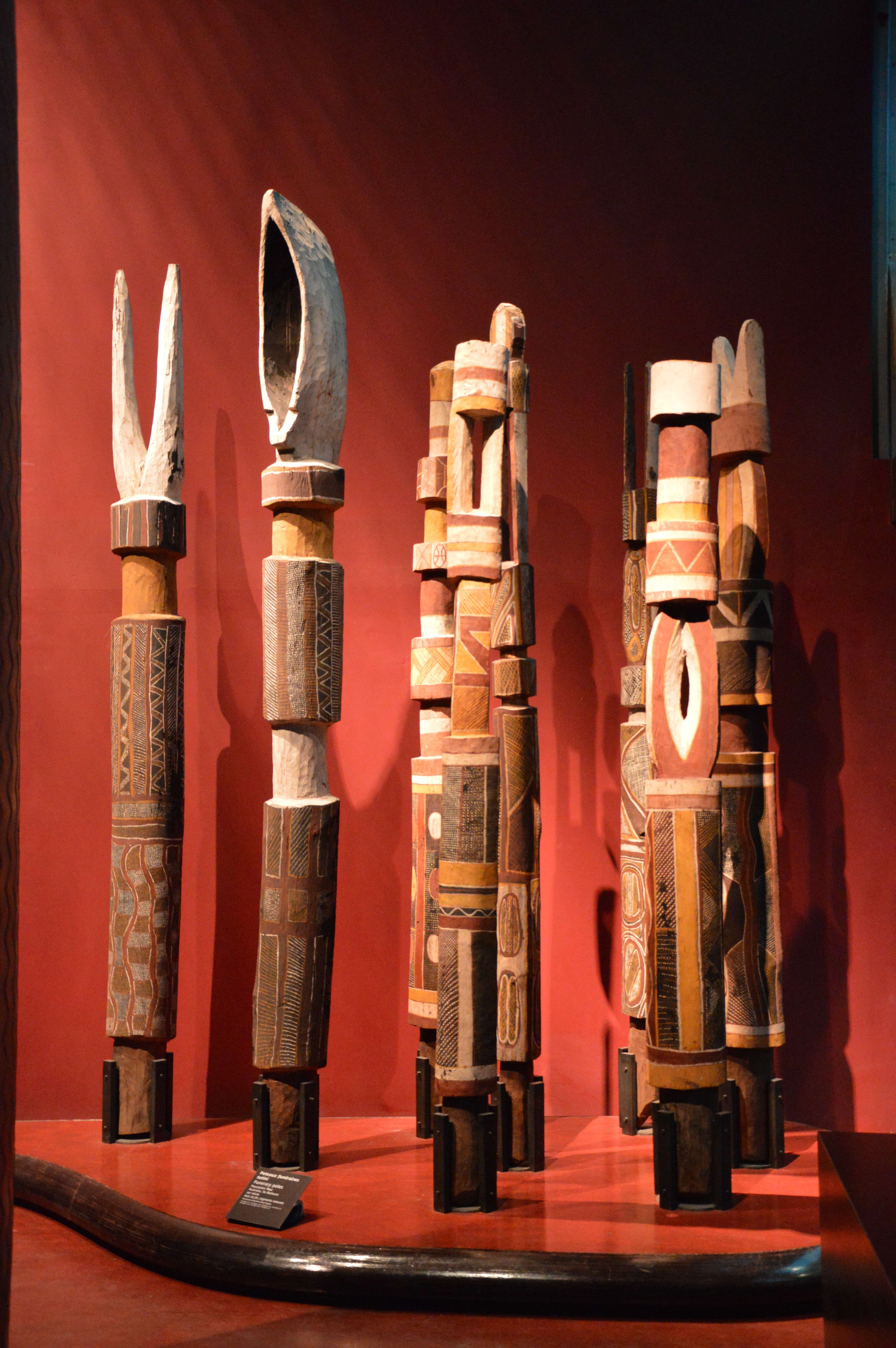 Funerary poles